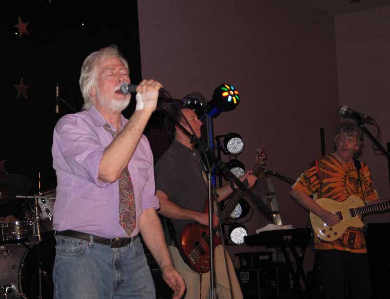 Lovin' Spoonful in 2008. Three of the original members performing in Orlando, Fla., in Feb. 2008. The Lovin' Spoonful